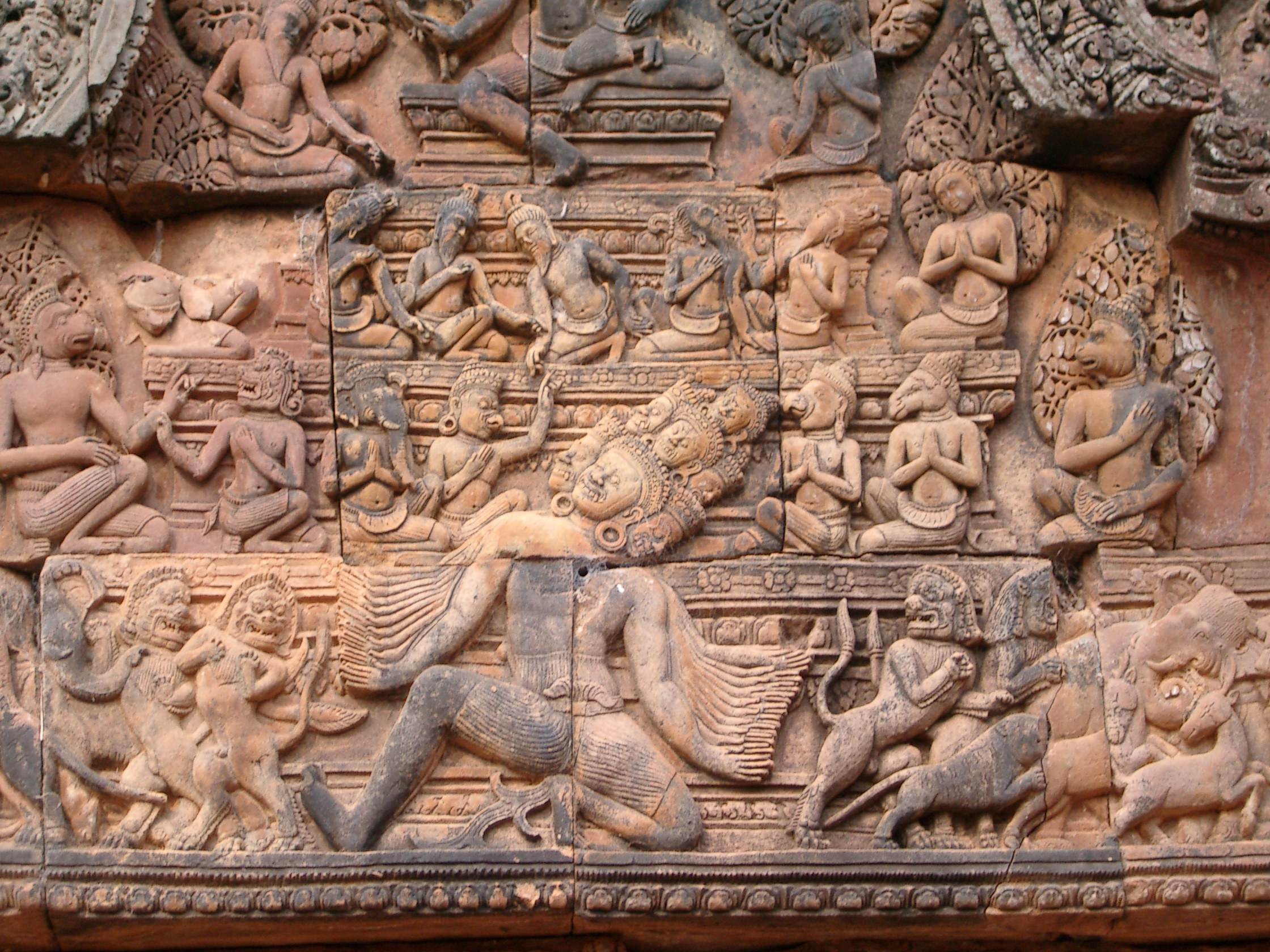 Relief at the temple Banteay Srei in Angkor, Cambodia